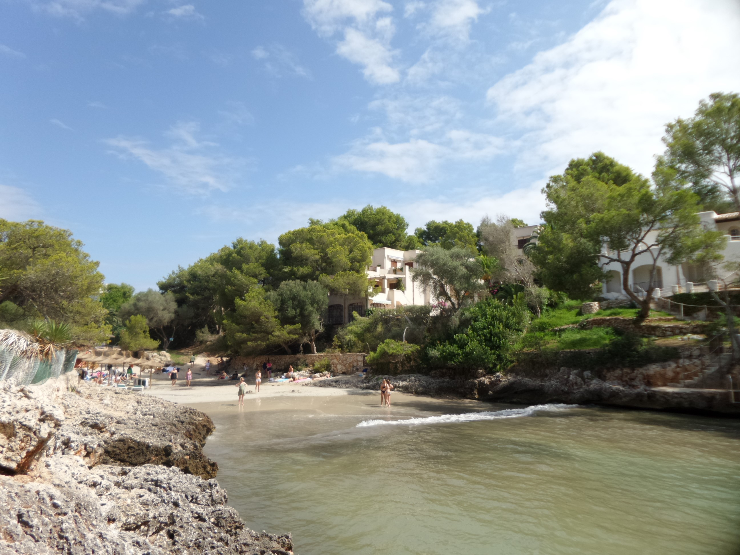 Cala Serena (Bay)